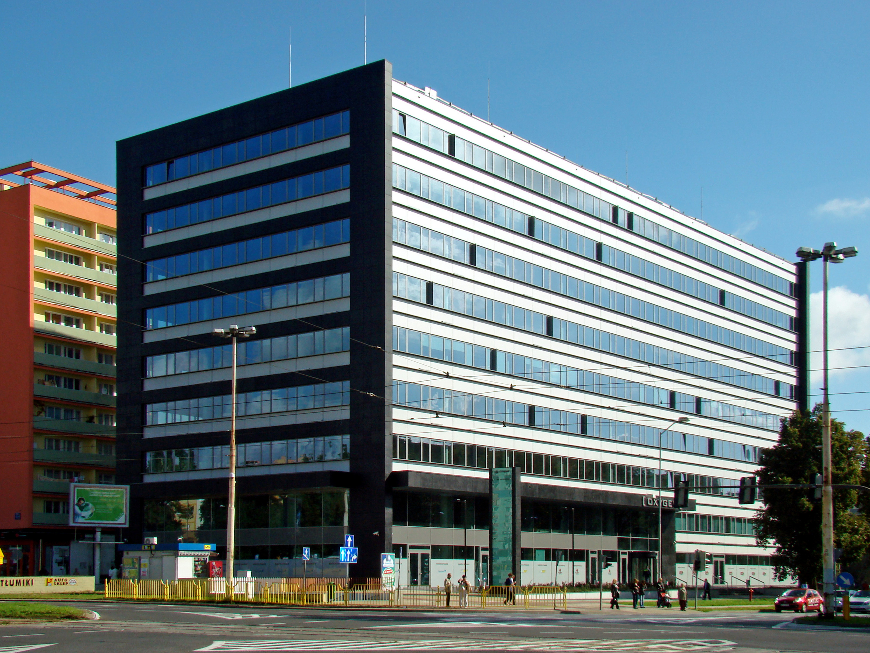 Oxygen, Szczecin, Poland